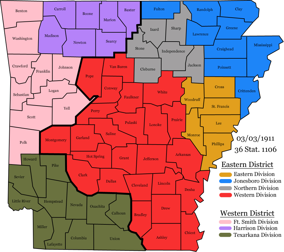 Arkansas districts - 1911